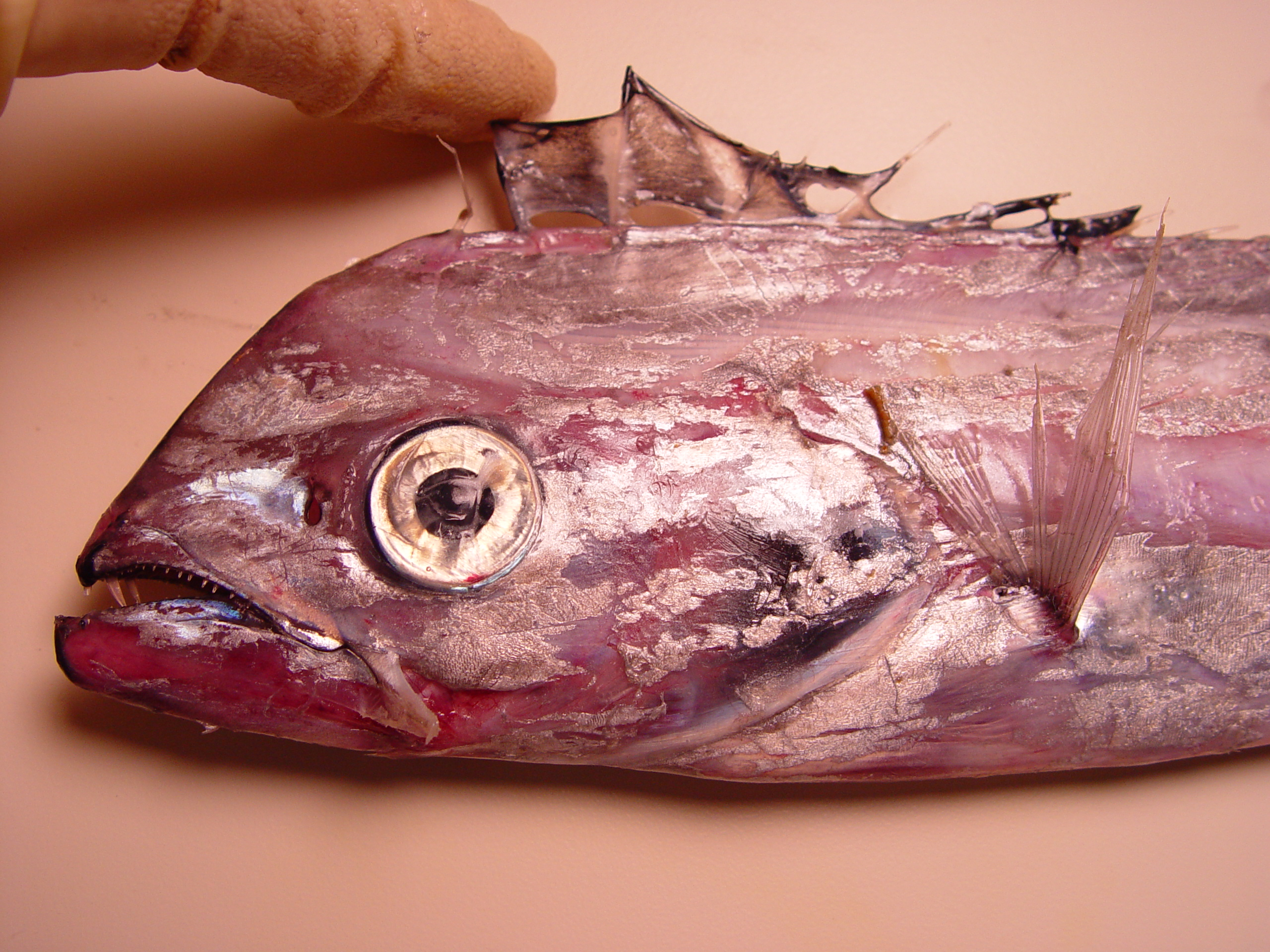 Head of channel scabbardfish ( Evoxymetopon taeniatus )